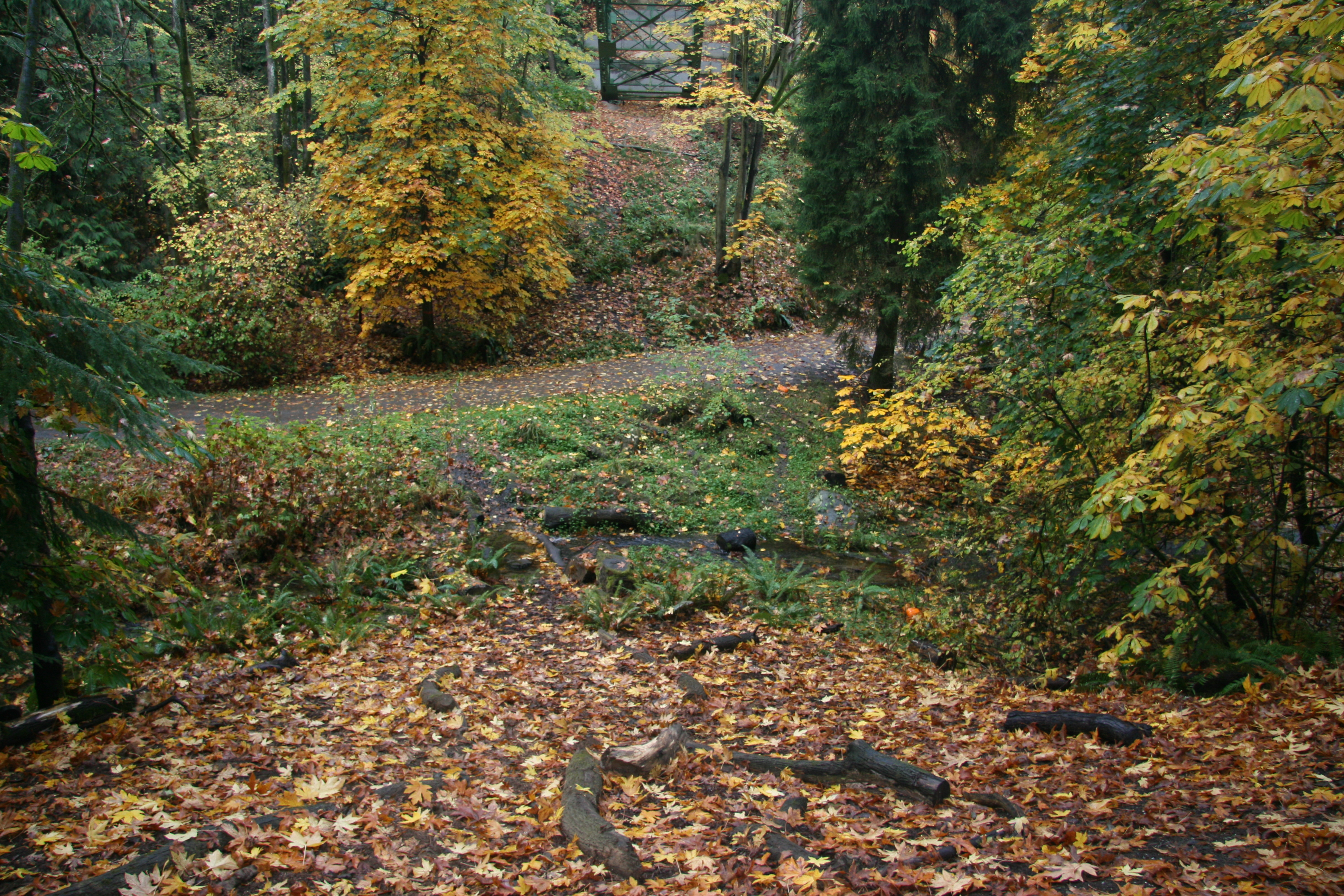 Taken in Seattle, Washington